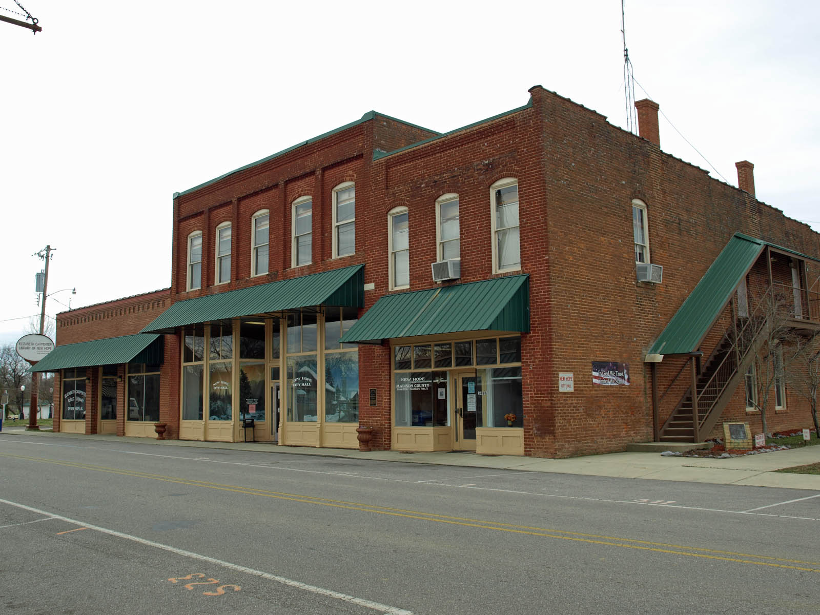 New Hope, Alabama, City Hall (formerly known as Butler's Store), listed on the National Register of Historic Places